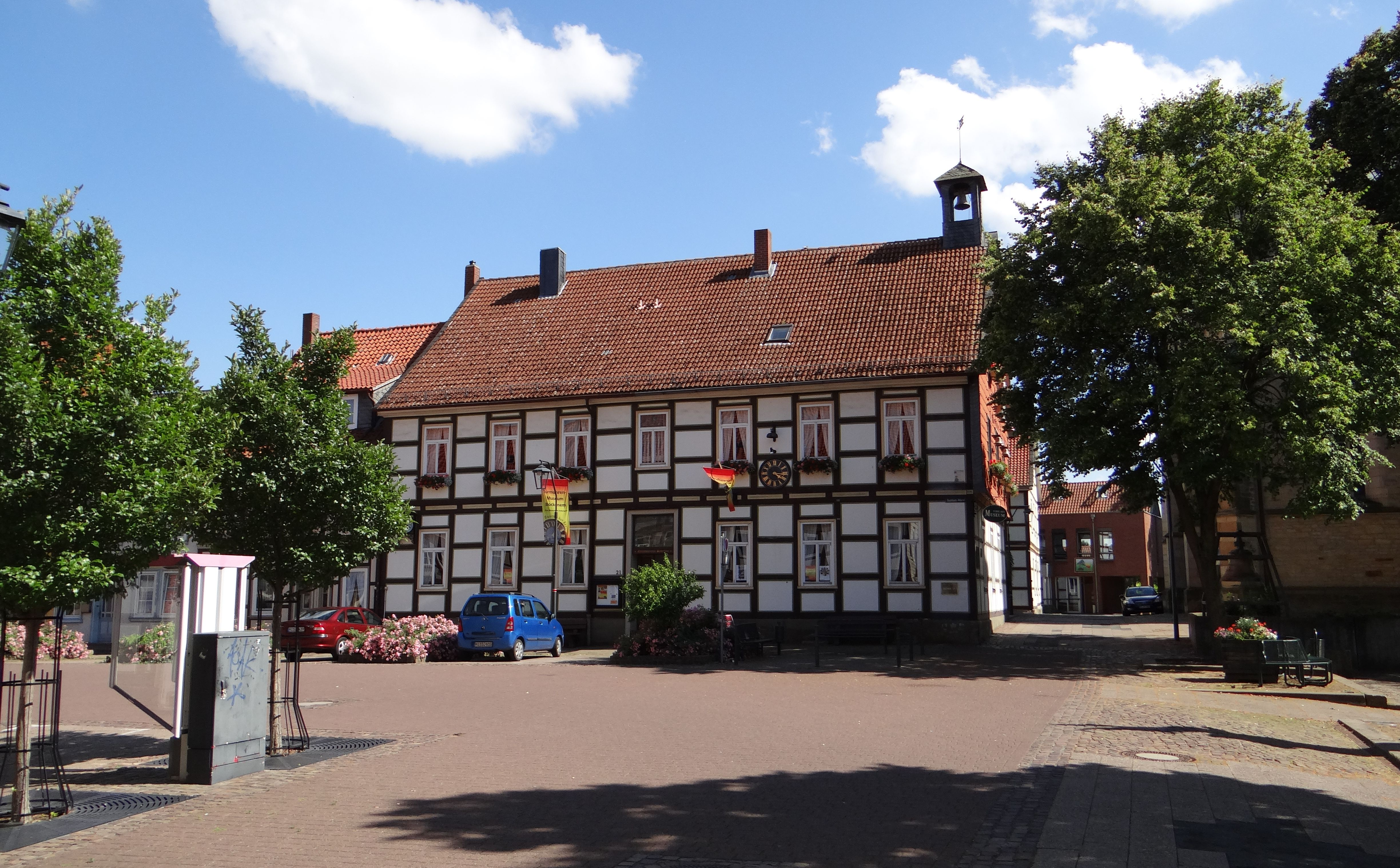 Museum in Bockenem, Germany.